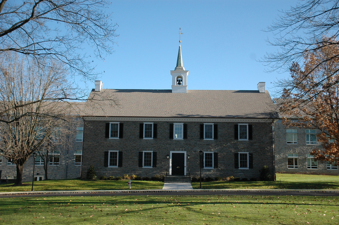 Germantown Academy Administration Building, built 1965, renovated 2011